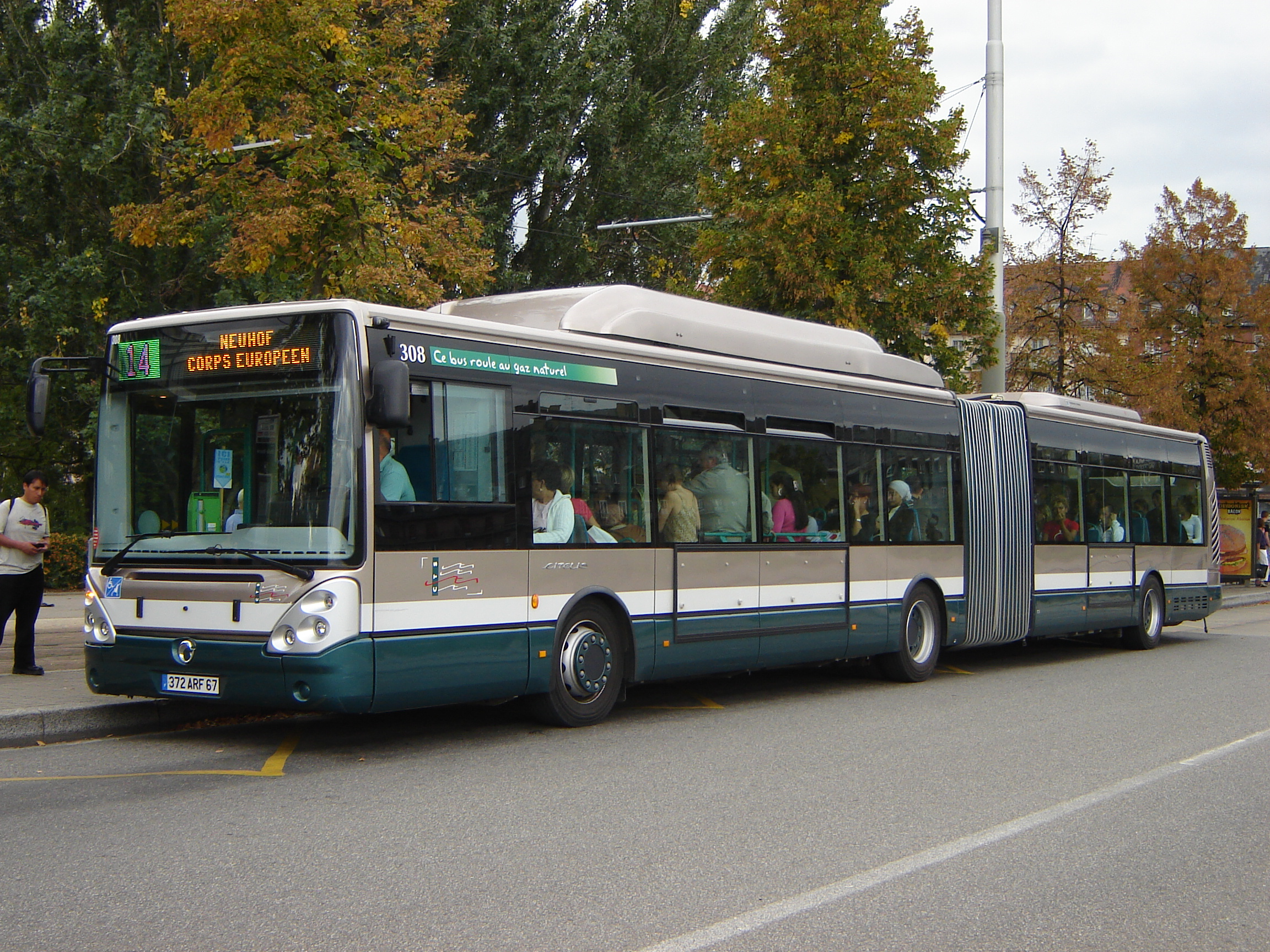 Citelis18 GNC in Strasbourg, at "Etoile Bourse" station